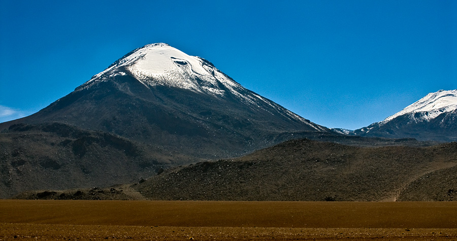 Cerro (Volcán) Colorado and part of the Escalante Volcano (right), the latter is part of the Sairecábur group.